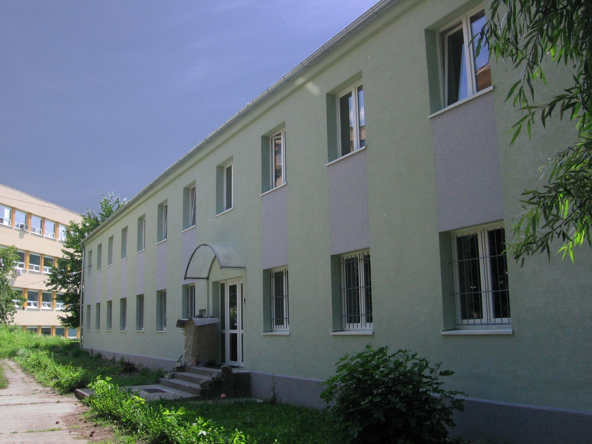 Building of Institute of geology of Slovak Academy of Sciences. Complex of Slovak Academy of Sciences on Patrónka in Bratislava. After reconstruction, july 2009.